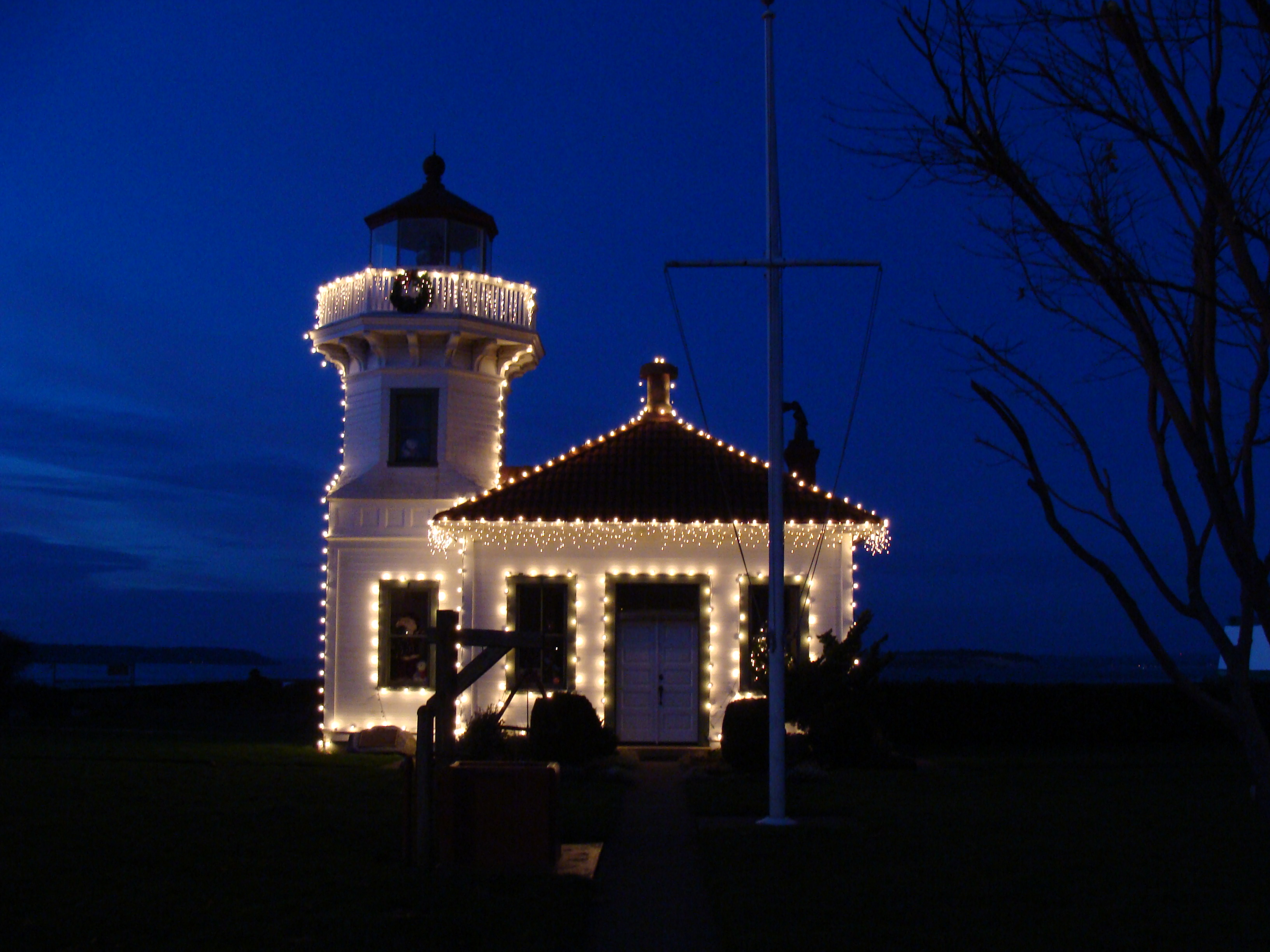 Mukilteo Lighthouse at dusk.